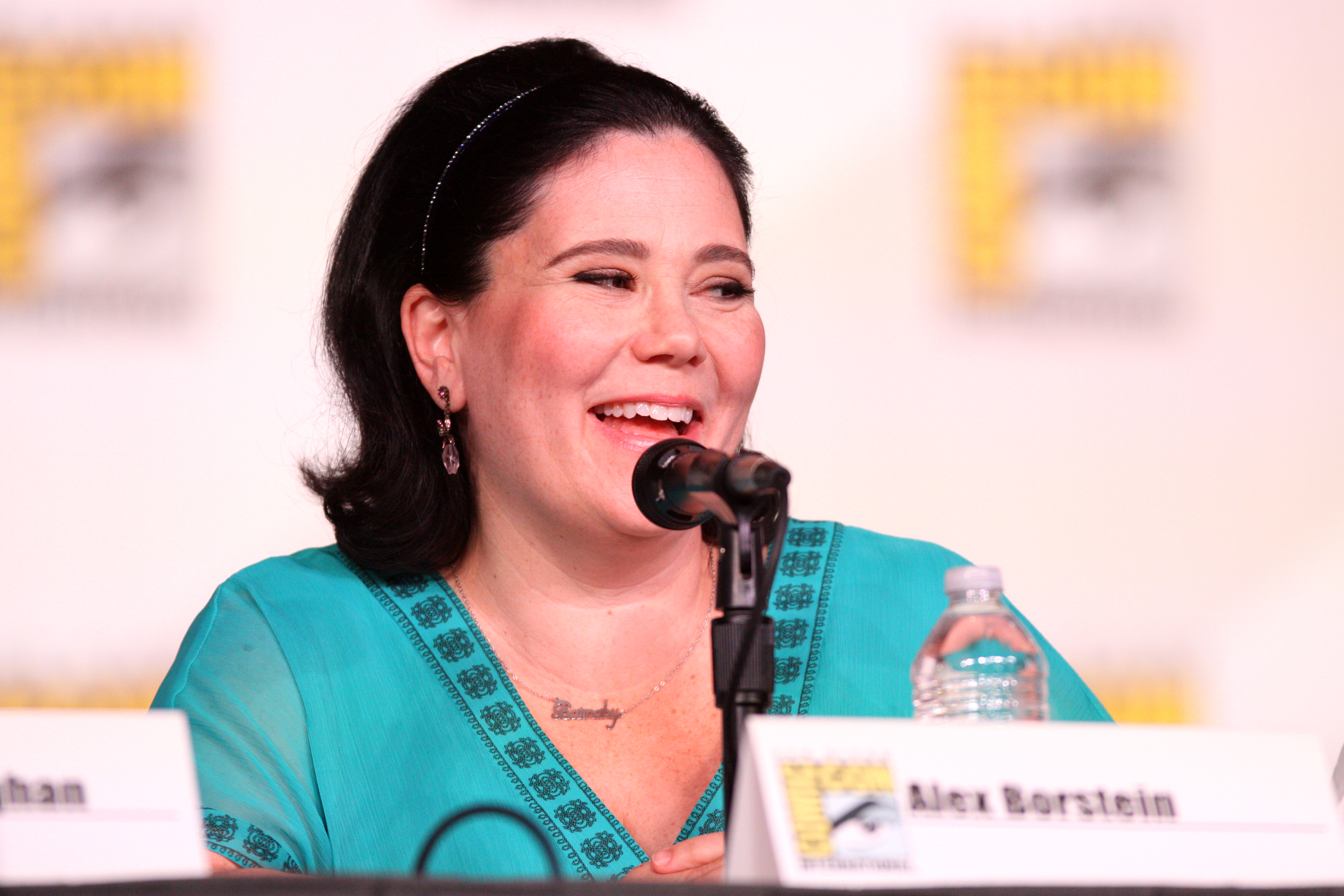 Alex Borstein speaking at the 2012 San Diego Comic-Con International in San Diego, California.